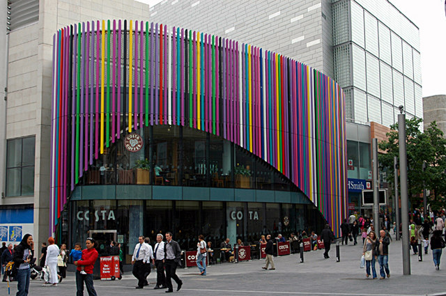 Colourful cafe